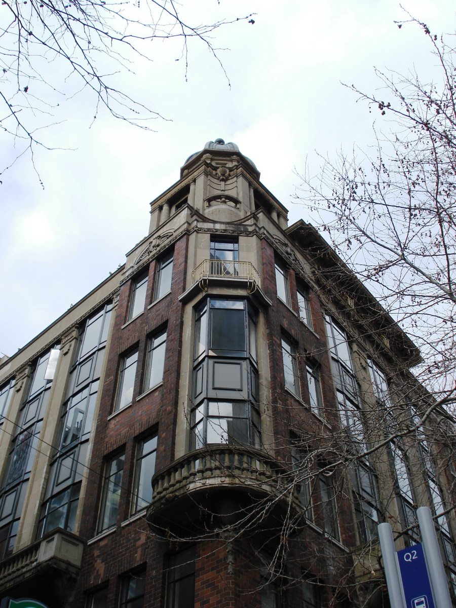 Vulcan Buildings, looking up from the corner of Queen Street and Vulcan Lane. This is a photo taken by myself, in September 2006